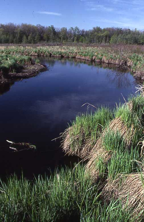 Lakeville Swamp Nature Sanctuary — in Oakland County, southeastern Michigan.